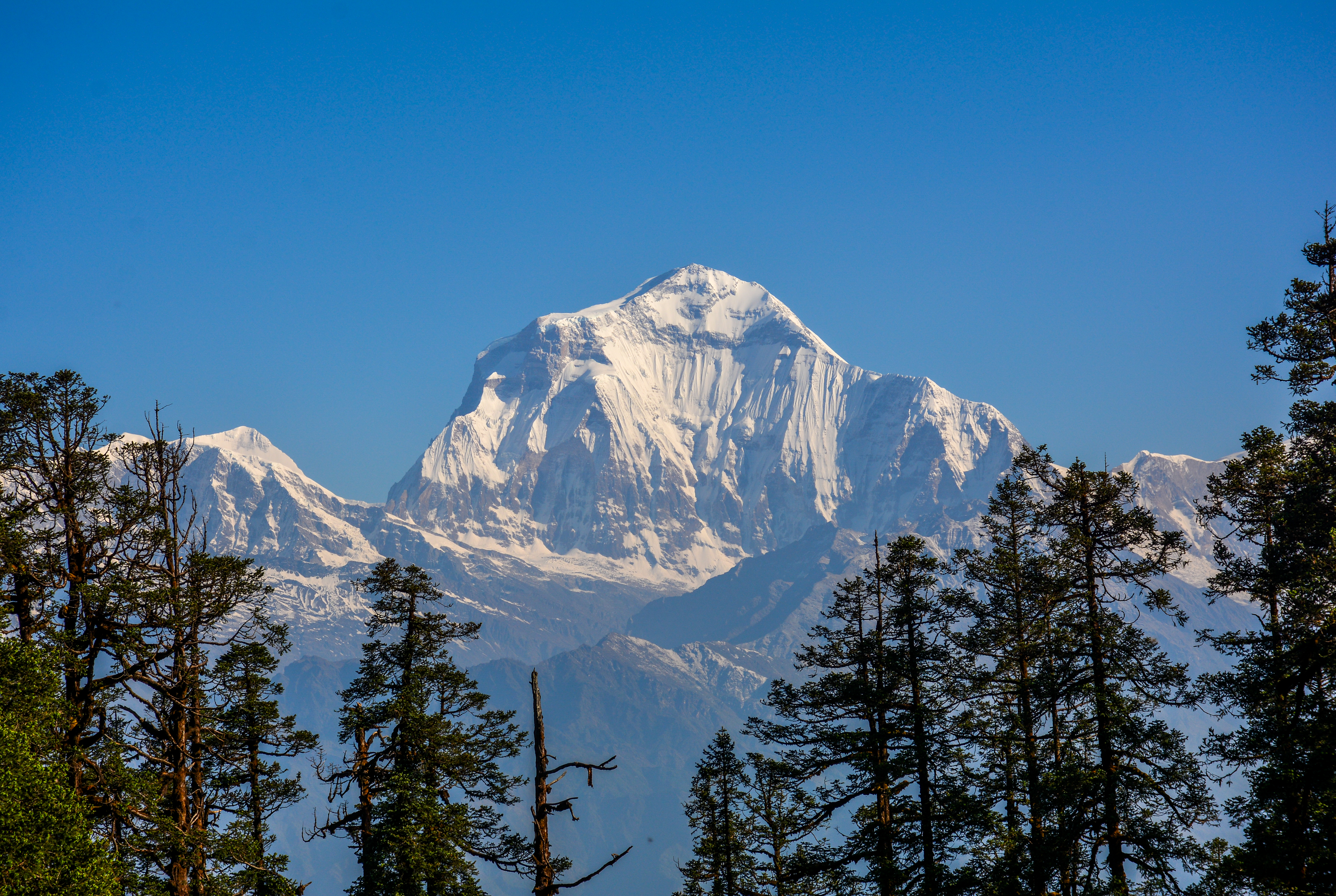 A view from Mohare Danda of Dhaulagiri